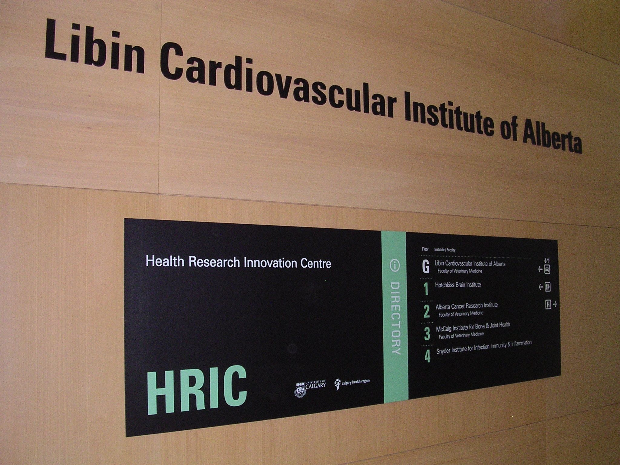 Libin Cardiovascular Institute of Alberta sign at the University of Calgary's HRIC building.